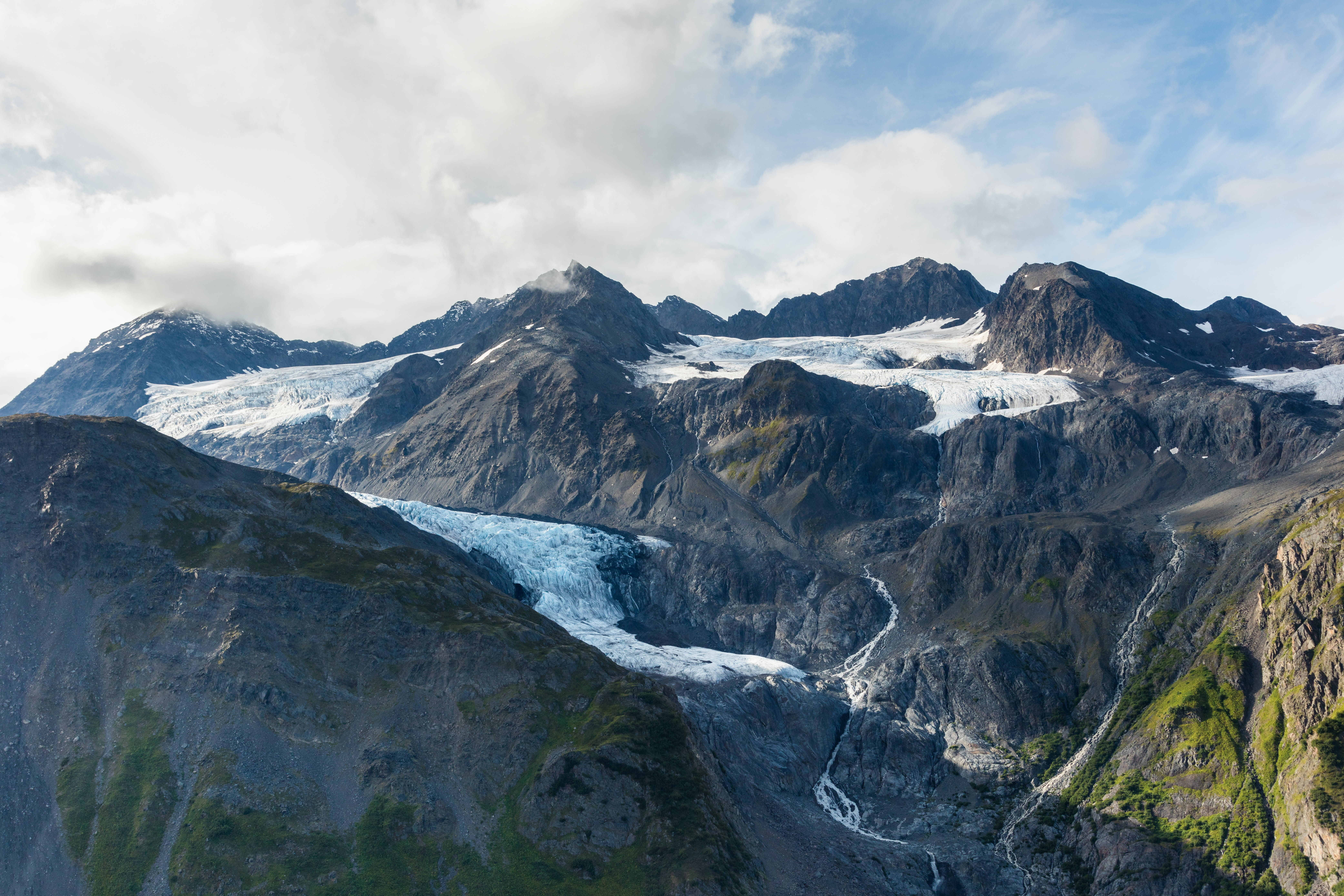 View of a glacier in Chugach State Park, Alaska, United States.